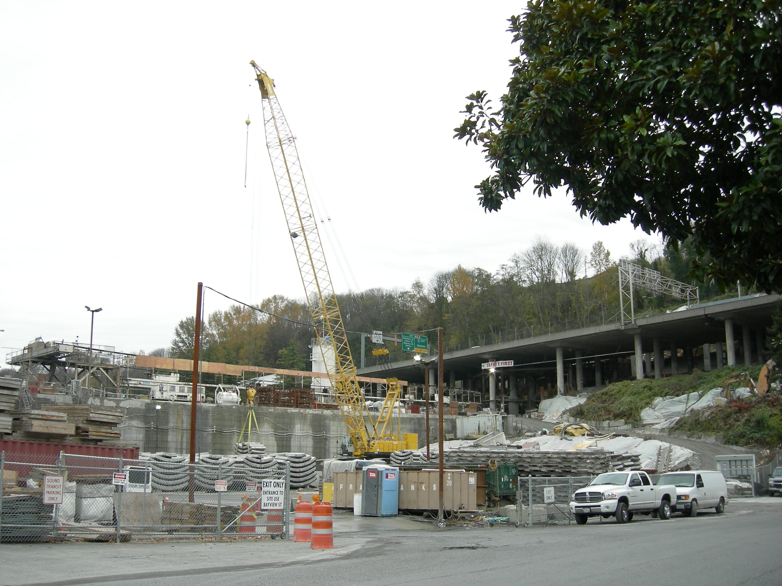 Sound Transit Link Light Rail under construction, Seattle, Washington, USA. This is near what will be the west entrance to the Beacon Hill tunnel, just north of the Rainier Brewery, 3000 block of Alaskan Way South. In the background is Interstate 5.